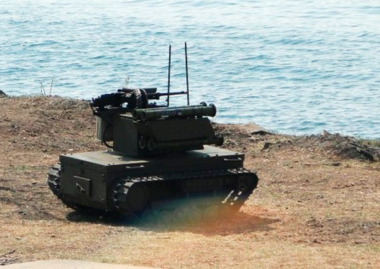 Platforma-M 550